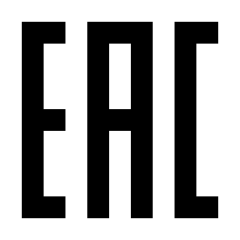 Eurasian Conformity logo